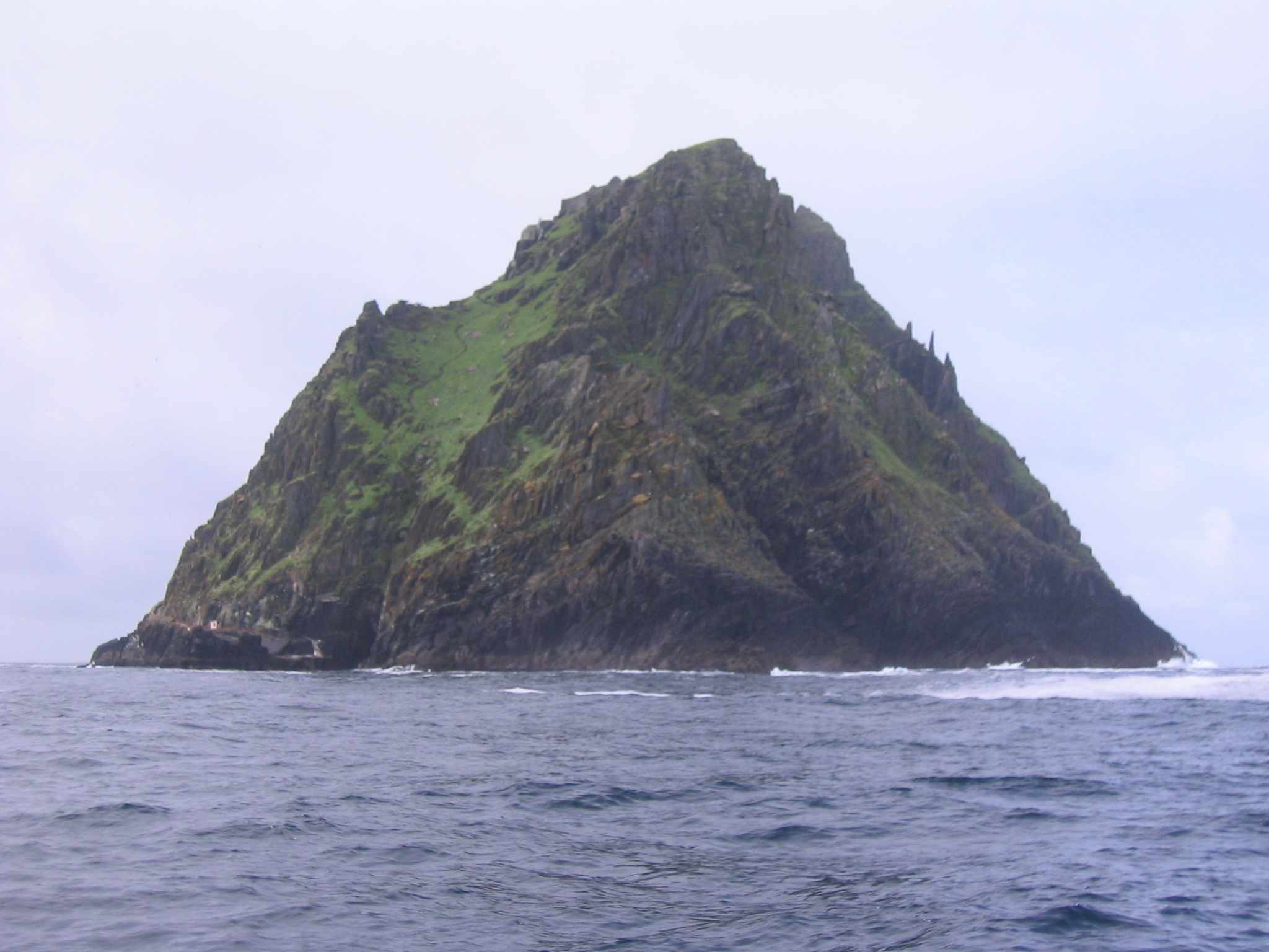 Skellig Micheal, an island 12 km west of County Kerry in Ireland